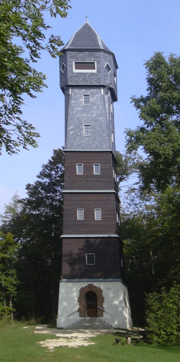 View tower on the Römerstein hill on the Swabian Jura, Germany